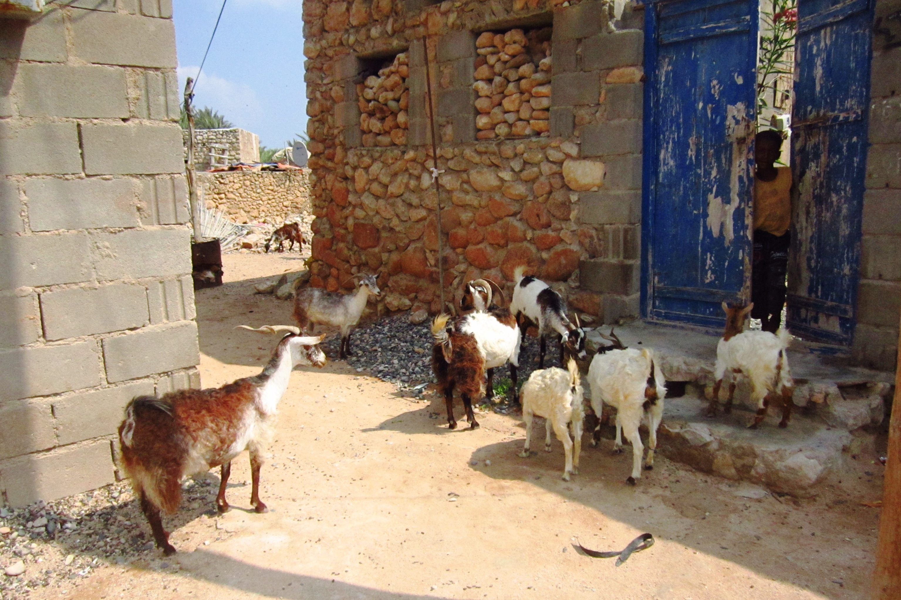 island goats yemen socotra soqotra hadiboh